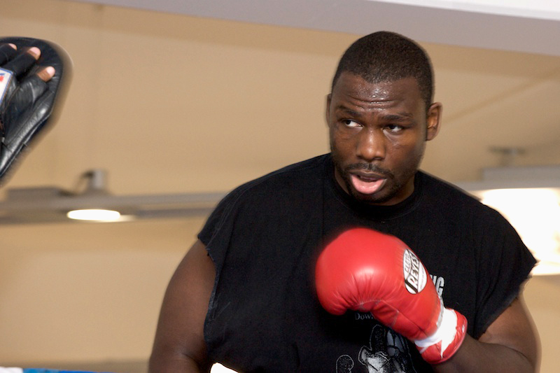 Former heavyweight champion Hasim Rahman